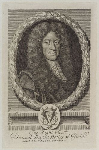 Denzil Holles, 1st Baron Holles (1599-1680)